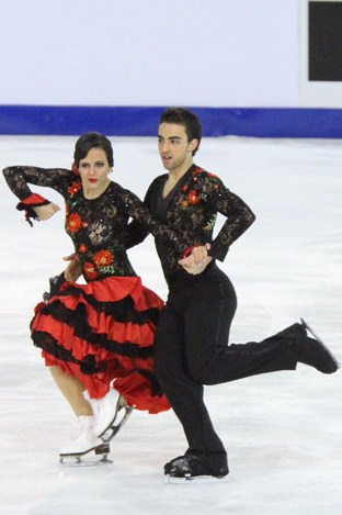 Sara Hurtado and Adria Diaz at the 2010 World Junior Figure Skating Championships.